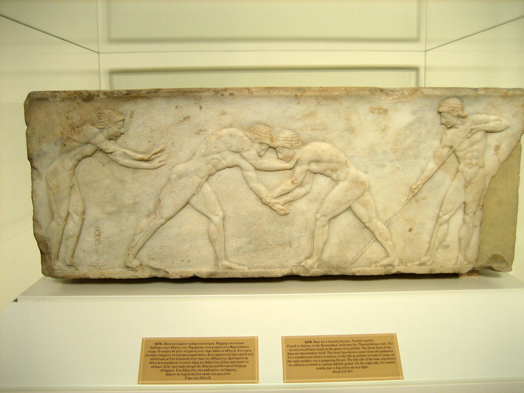 Base of a funerary kouros found in Athens, built into the Themistokleian wall. Three sides are decorated in relief: wrestlers are on the front side, an unspecified athletic game (known as "Ball Players") on the left side, a cat and dog fight scene on the right side.front view